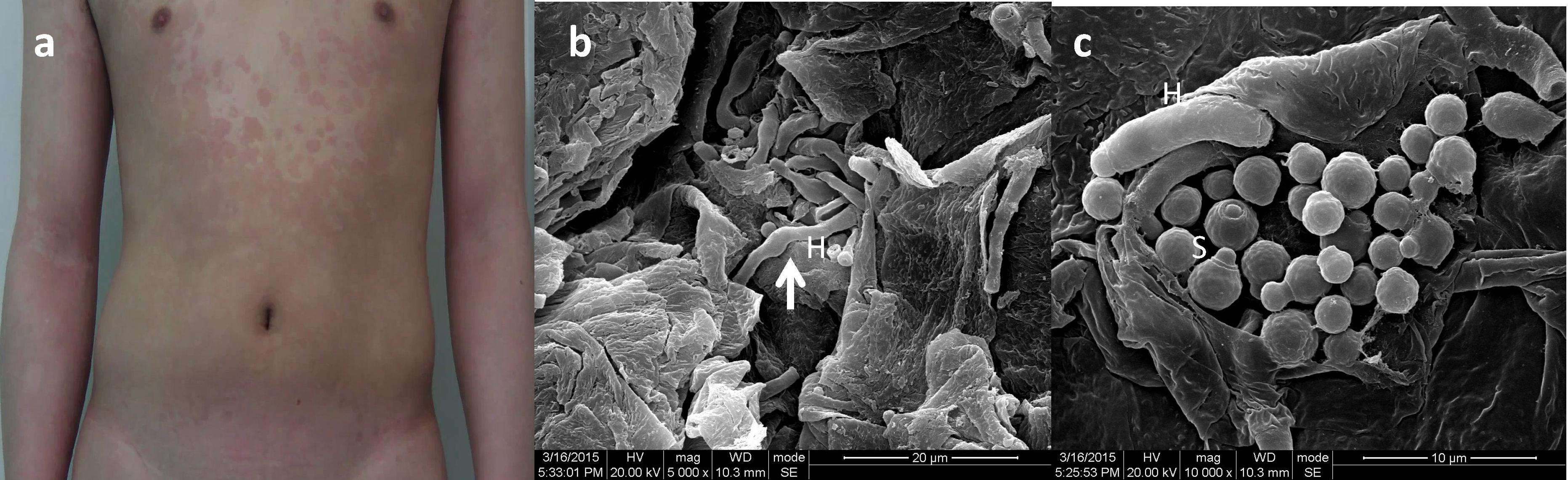 a. A 27-year-old man presented in our clinic with extensive erythema and scaly for 6 months. b. Under SEM, numerous hyphae (H) went through the scaly, length of which is about 10–20 μm. c. Under SEM, abundant of 3–5 μm in diameter grapes-like spherical Malassezia spores (S) with budding daughter cell, with collar structure around the budding, and banana-like haphae (H).